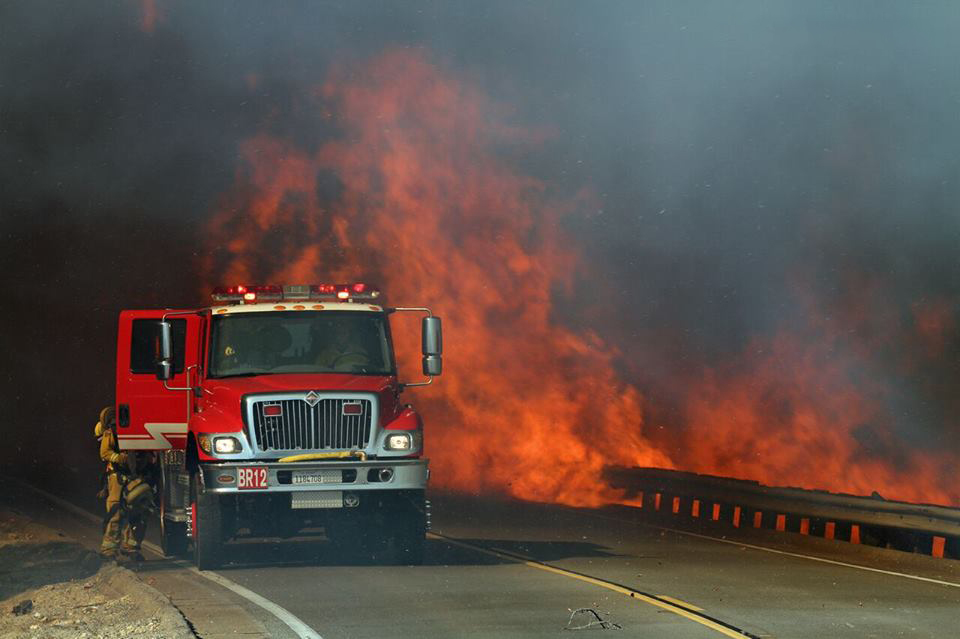 Picture of the Lilac Fire burning across a freeway in North County, San Diego, on December 9, 2017.